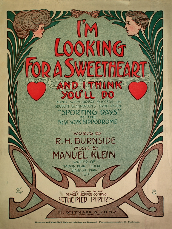 Sheet music for "I'm Looking For a Sweetheart and I Think You'll Do" from The Pied Piper (1908). Music by Manuel Klein.